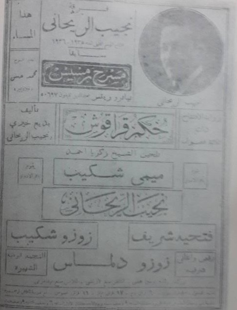 Ad for Naguib el-Rihani's play "Hukum Qara qosh" (The rule of Qara qosh) in an Egyptian newspaper in 1935.